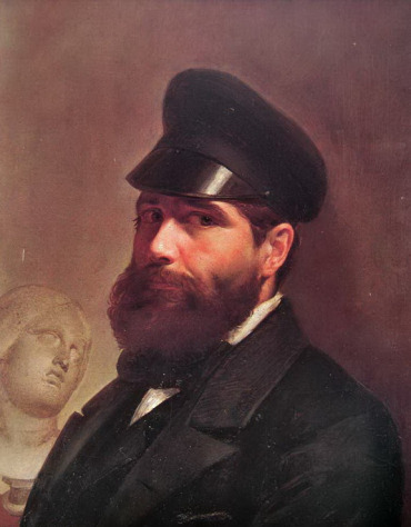 Greek painter Nikolaolaos Kounelakis (1829-1869):Self-portrait